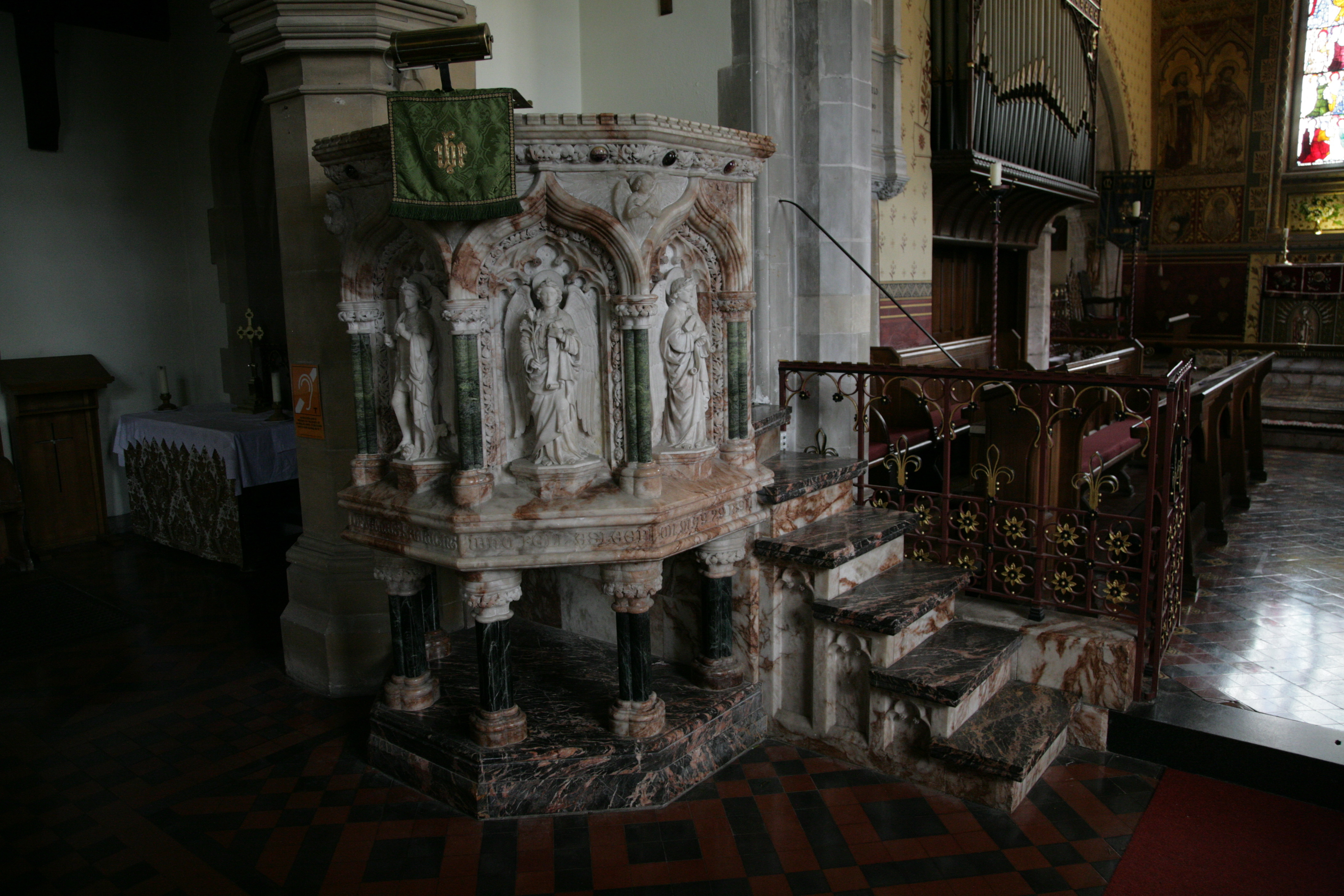 The church St. Michael and All Angels in Hughenden, High Wycombe. The pulpit is carved with the figures of the archangels Michael, Gabriel, and Uriel.